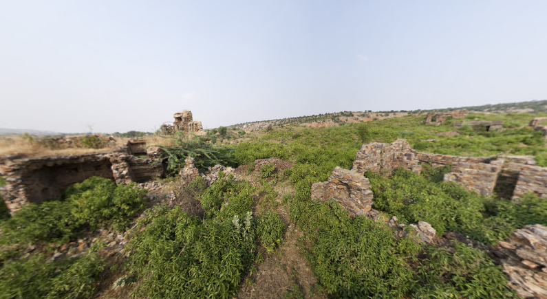 The old fort of Indor, one of the strongholds of the Khanzada chiefs of Mewat, is situated on the hill range which forms the boundary between the Alwar territory and the British district of Gurgaon. There are some well-executed copper coins of a person calling himself "Fateh-ud-duniya-wa-ud din Jalal Shah". They are dated in the years 841, 842, 843. Indor, which was the favourite residence of the Khanzada Jalal Khan. His tomb also is at Indor, and his name is connected with all the traditions of the place.